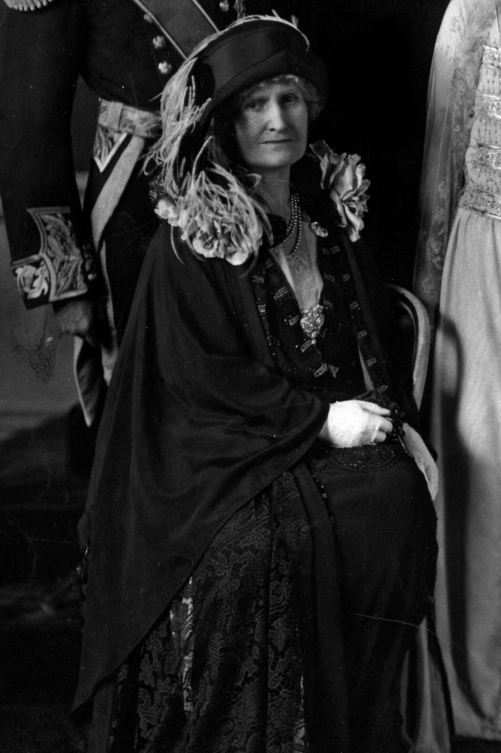 Wedding portrait of the Duke and Duchess of York with their parents, the Earl and Countess of Strathmore as well as Queen Mary and King George V of England. (The Duke and Duchess were to become King George VI of England and Queen Elizabeth) Photograph taken in April 1923. (Photo by: Universal History Archive/UIG via Getty Images)